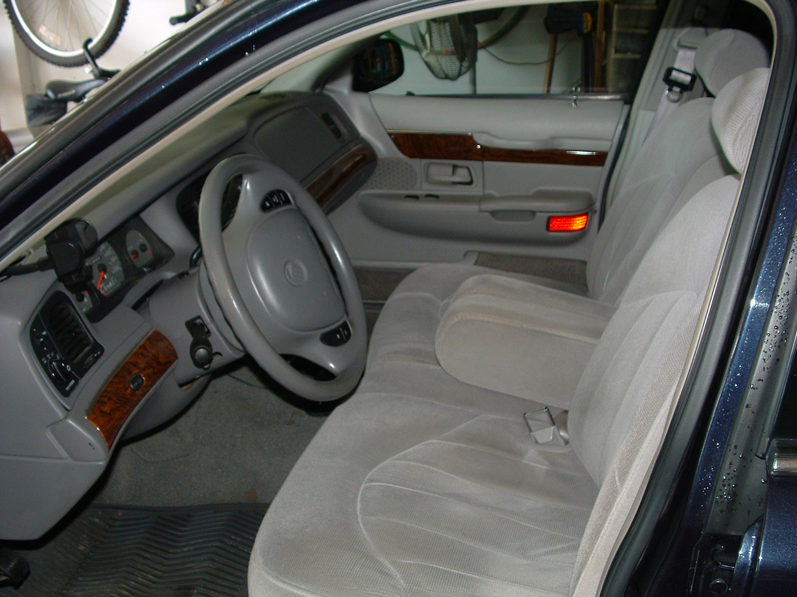 Photograph of the interior and front seats of a 1998-2002 Mercury Grand Marquis GS.